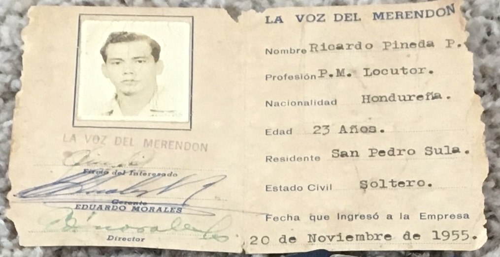 This is a scan of an ID Radio Broadcaster of Jose Ricardo Pineda Pena of San Pedro Sula, Honduras.